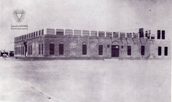 The first public school of Bahrain, Al-Hidaya Al-Khalifia Boys school, in the island of Muharraq in 1919